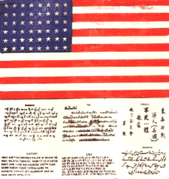 48-star US flag, with multilingual inscriptions below: "This foreign person has come to China to help in the war effort. Soldiers and civilians, one and all, should rescue, protect, and provide him with medical care."